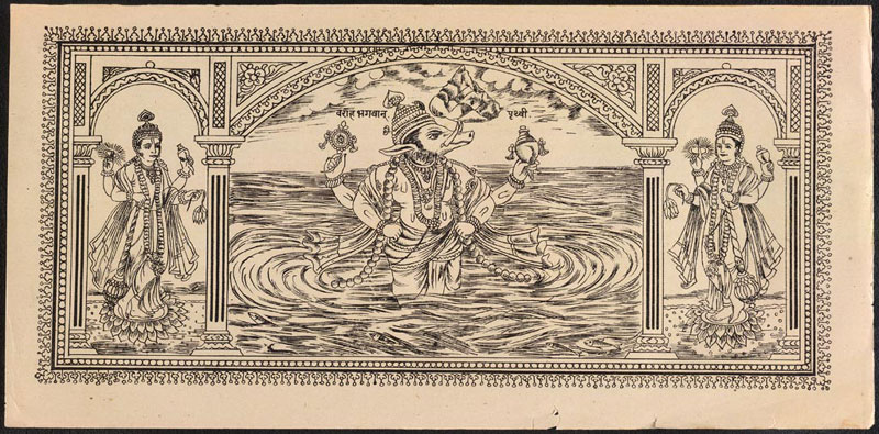 Sketch depicting 'Varaha Avatar' (Boar incarnation of Lord Vishnu) taken from an old text of 'Varaha Purana'. (image actually taken from English Wikipedia) Atha Srimadvarahamahapuranam, (Varha's Great Ancient Tale). Kalyananagaryam: Laksmivenkatesvara Mudranalaye, 1923. details